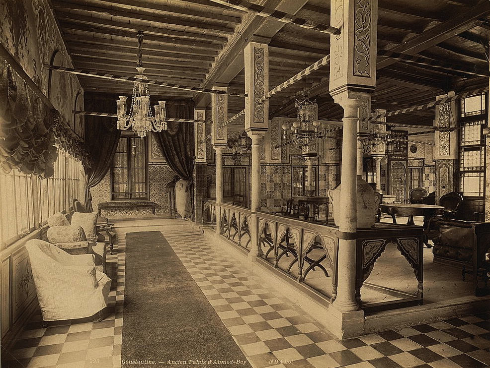 Title: Constantine. Ancien Palais d'Ahmed-Bey / ND Phot. Creator(s): Neurdein frer̀es, photographer Date Created/Published: [between 1860 and 1890] Medium: 1 photographic print: albumen. Summary: Interior of the Palace of Ahmed Bey, Constantine, Algeria. Reproduction Number: LC-DIG-ppmsca-04732 (digital file from original) Rights Advisory: No known restrictions on publication in the U.S. Use elsewhere may be restricted by other countries' laws. For general information see "Copyright and Other Restrictions..." ( Call Number: LOT 13553, no. 50 [P&P] Repository: Library of Congress Prints and Photographs Division Washington, D.C. 20540 USA Notes: Title from item. No. 293. Subjects: Ahmed,--Bey of Constantine,--1785?-1850?--Homes & haunts. Passageways--Algeria--Constantine--1860-1890. Castles & palaces--Algeria--Constantine--1860-1890. Format: Albumen prints--1860-1890. Collections: Miscellaneous Items in High Demand Bookmark This Record: [1]